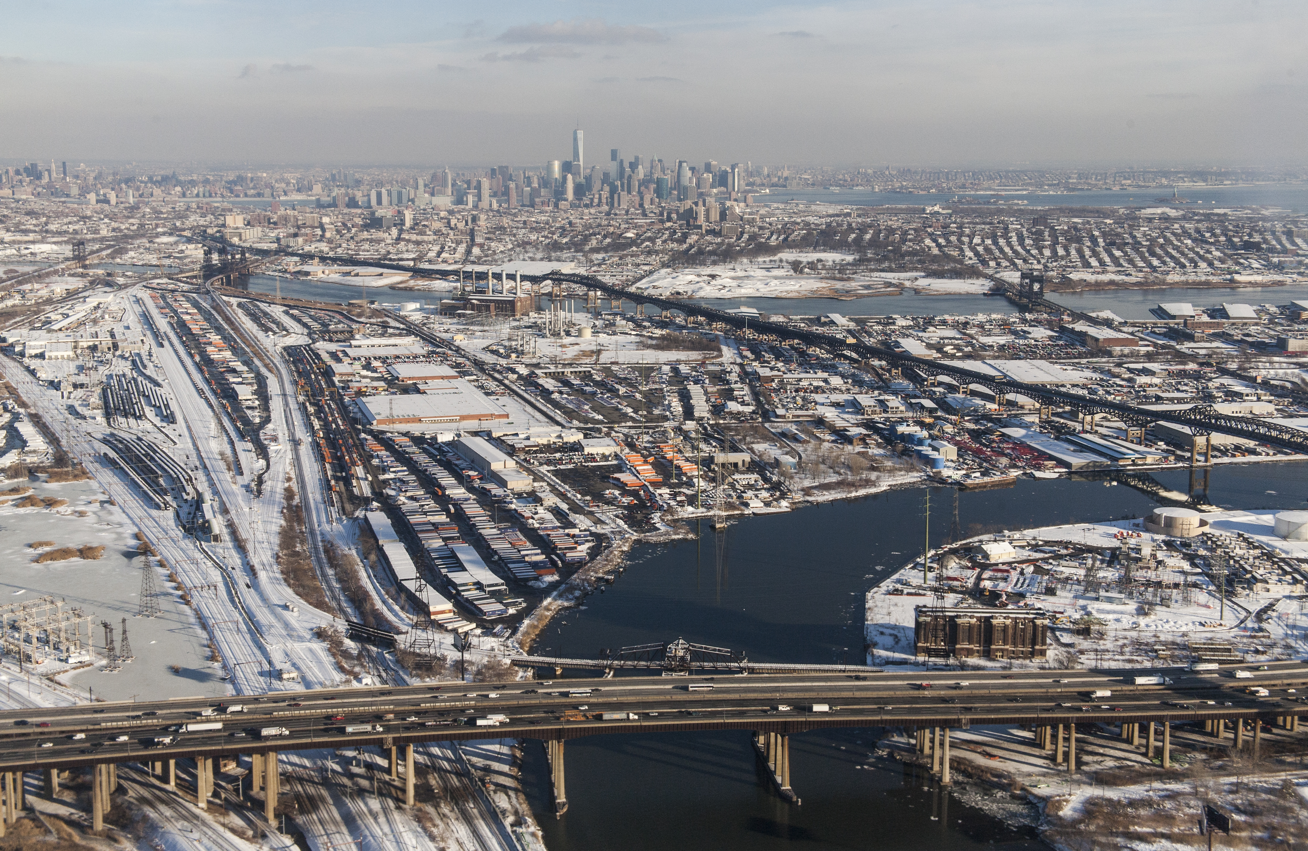 CSX South Kearny rail yard, New Jersey, with the black Pulaski Skyway (highways 1 and 9) cutting across the meadowlands below the southern Manhattan skyline, dominated by the new One World Trade Center. The New Jersey Turnpike is in the foreground, crossing the Passaic River. The Hackensack is the other river farther out. They join just offscreen to the right. The rail line on the far left, running under the Turnpike, is the Amtrak Northeast Corridor.